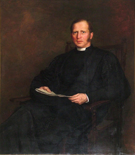 A painting of Philip Egerton by Albert Chevallier Tayler.